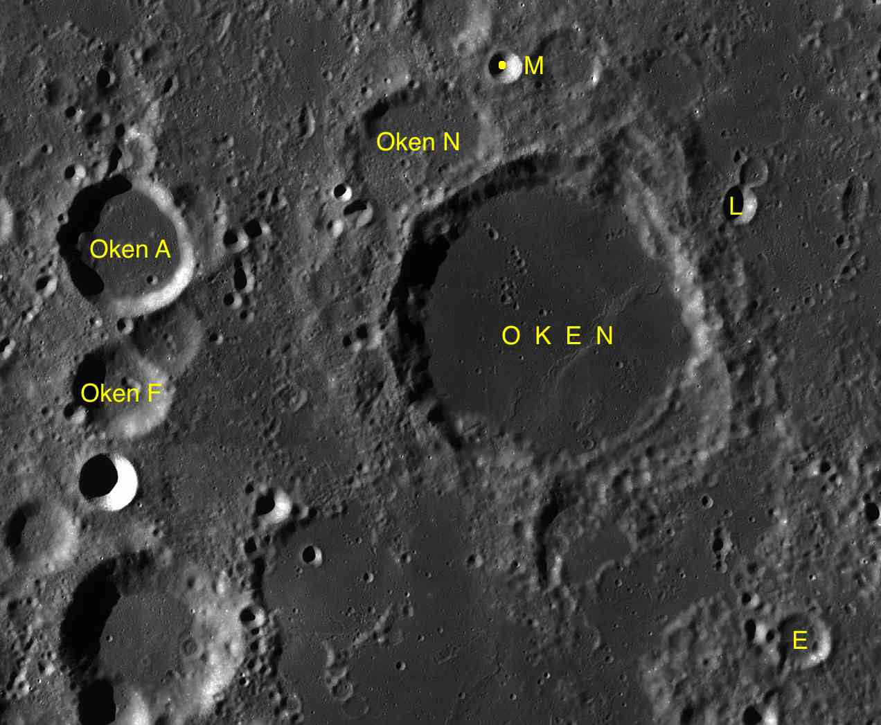 Part of the chart LAC-115 used for the presentation